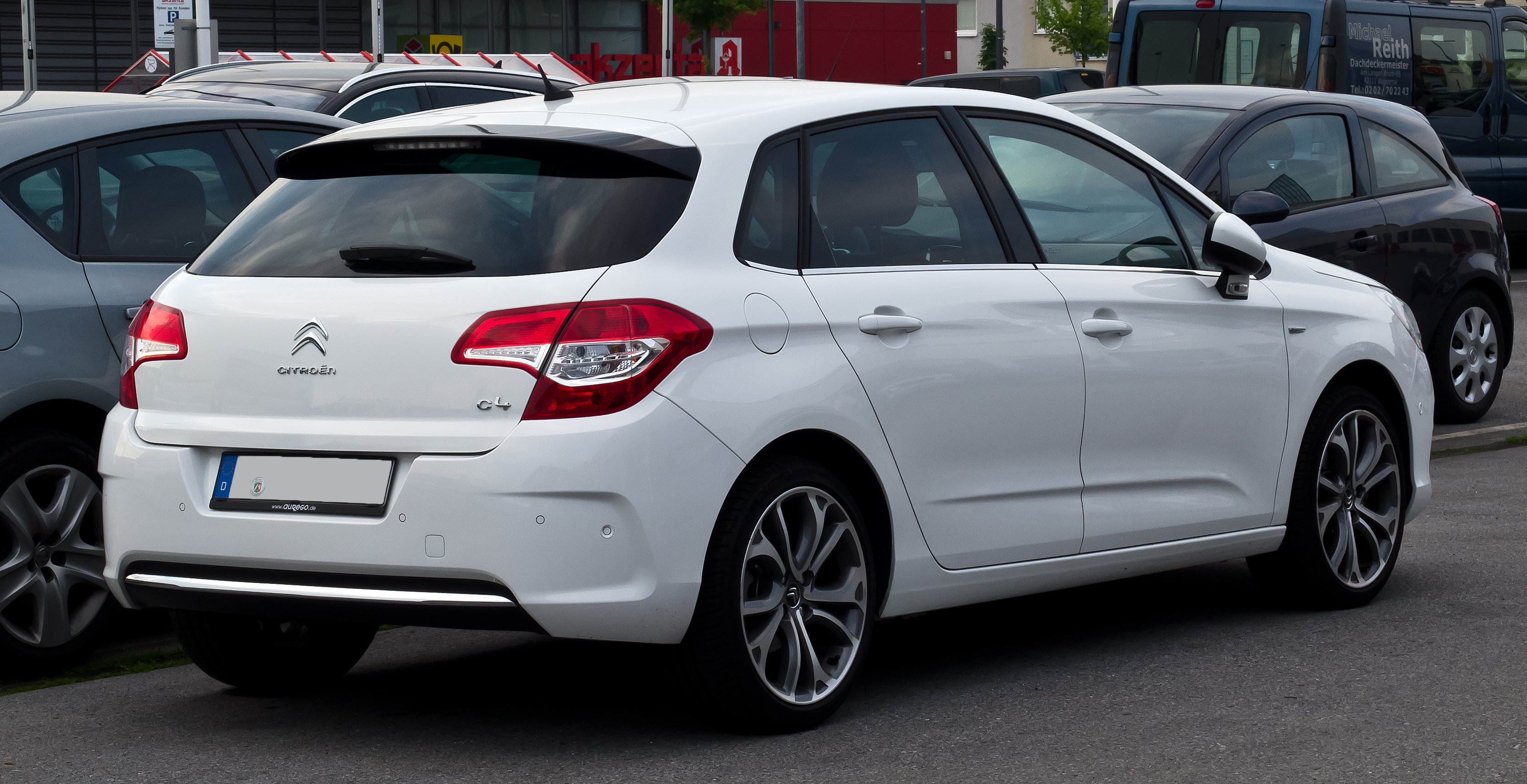 Citroën C4 Exclusive (II)